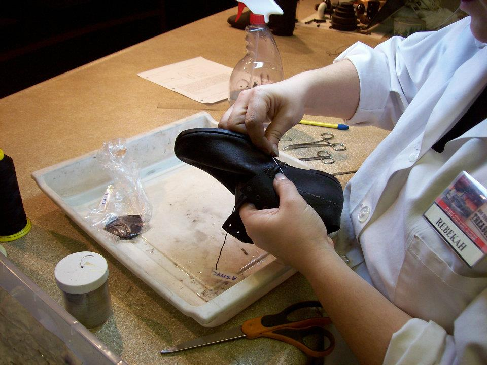 Carefully Re-Stitching a Shoe in the Arabia Steamboat Museum's Preservation Lab